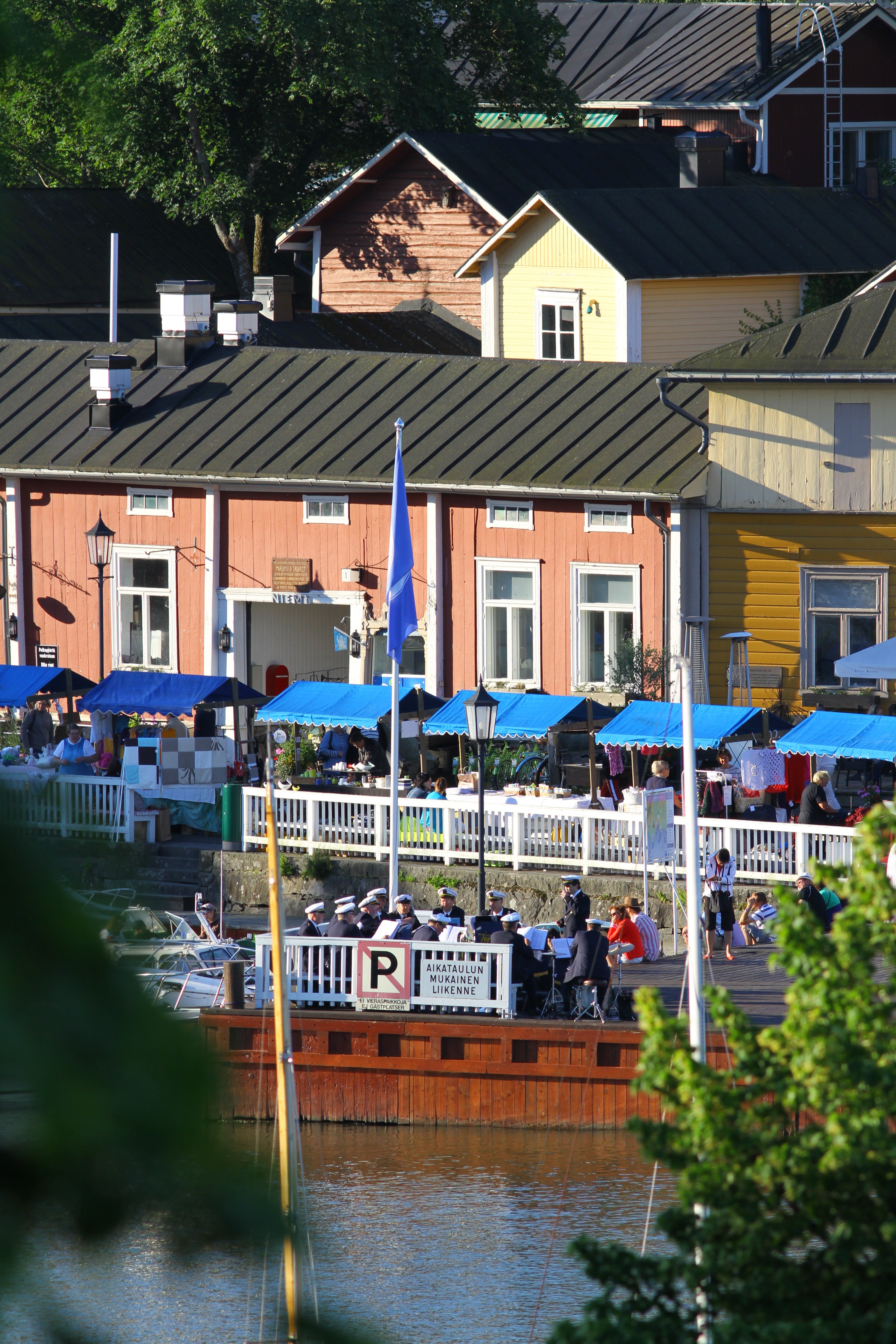 National Sleepy Head Day (Finnish: Unikeonpäivä) in the city of Naantali, Finland.